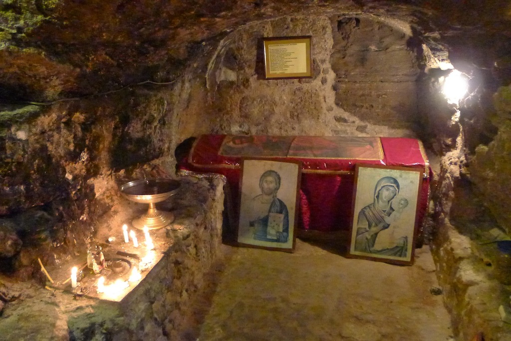 Grave of the apostle Barnabas near Salamis (Cyprus).